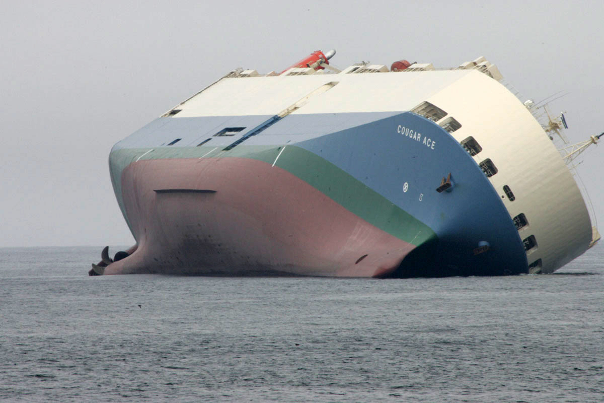 View of the starboard side towards bow end of the MV Cougar Ace, capsized on its port side